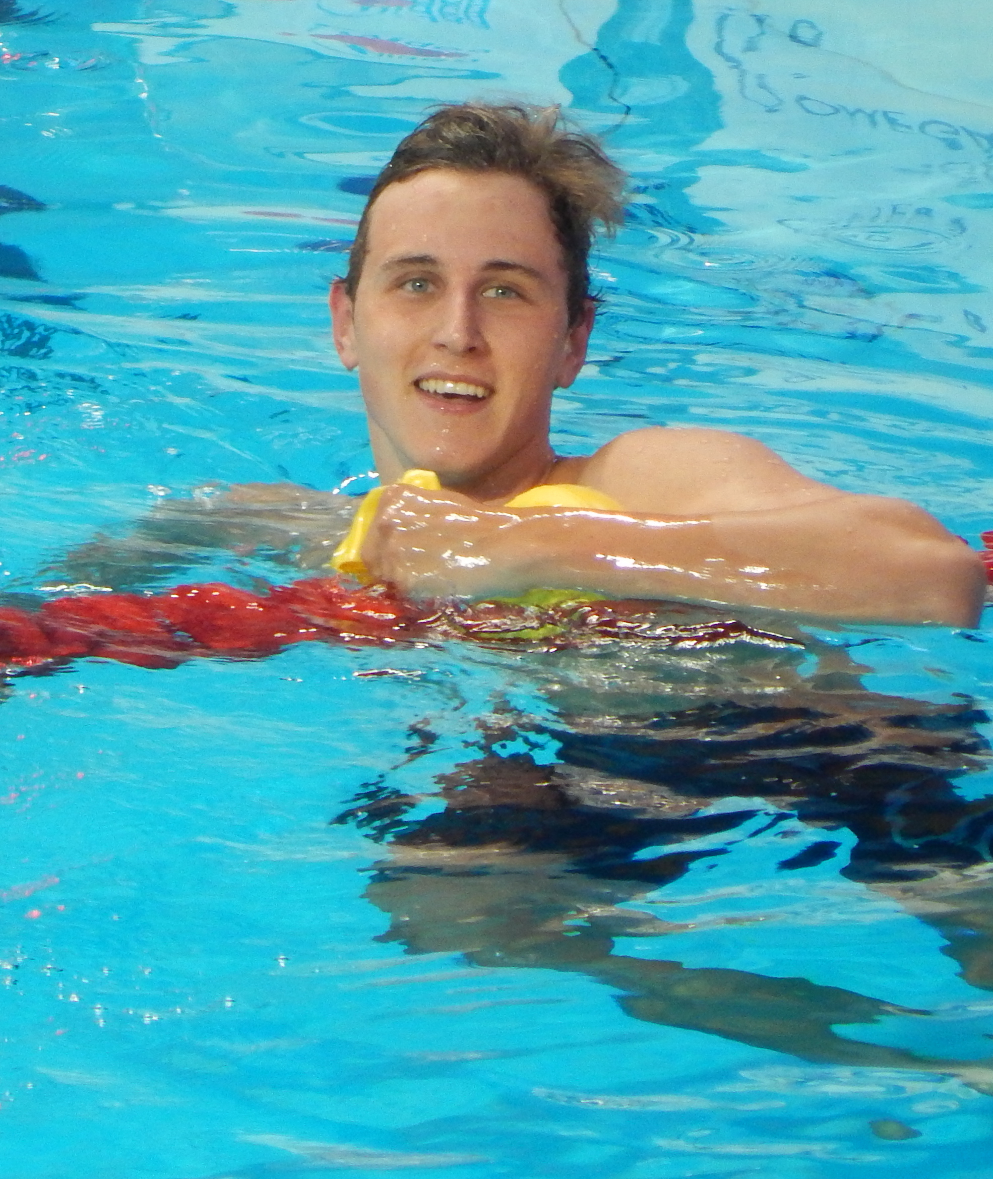 Cameron McEvoy and James Guy after finish 200m freestyle semi in Kazan